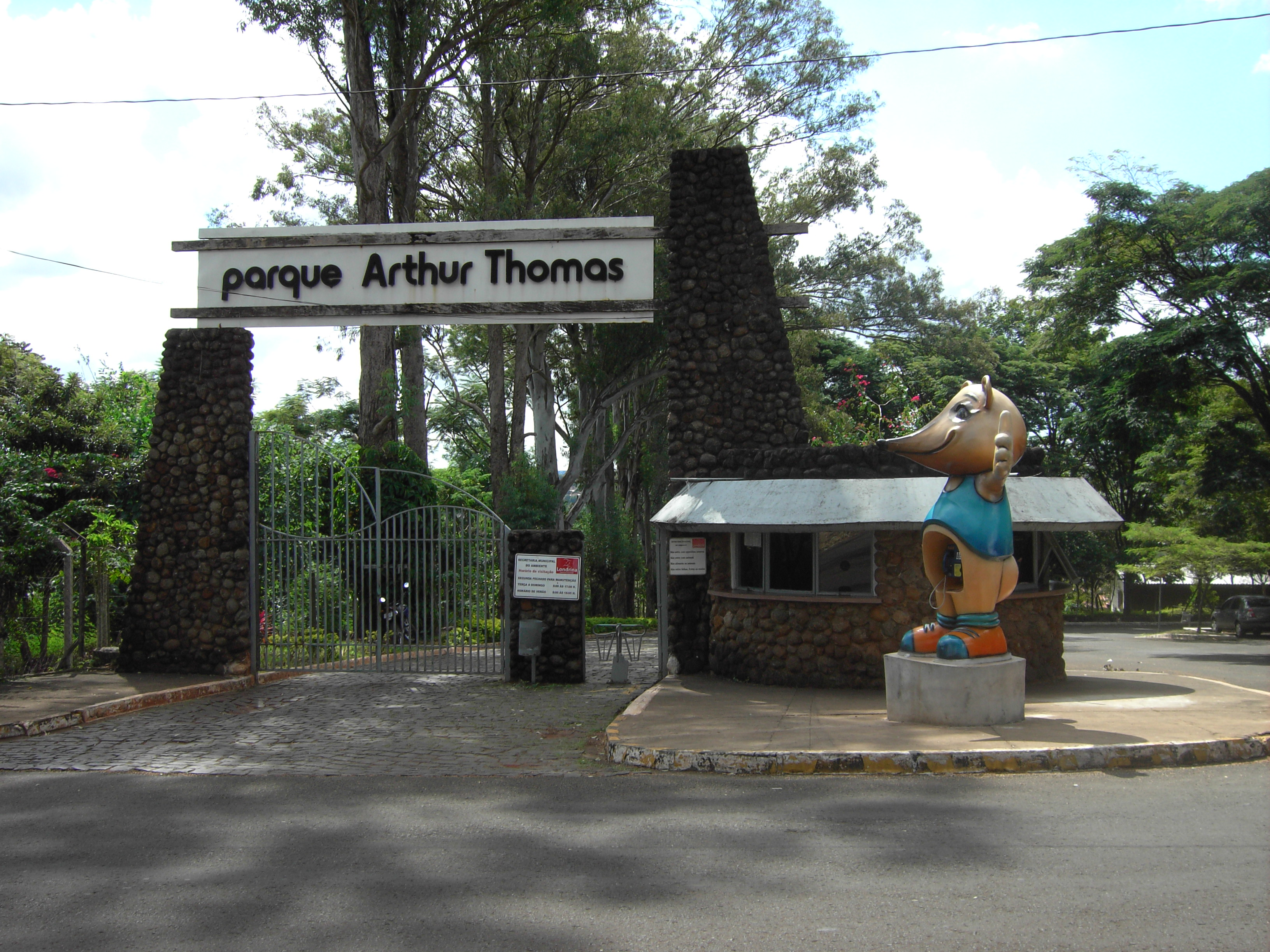 Template:Parque Arthur Thomas, Londrina-PR, Brasil